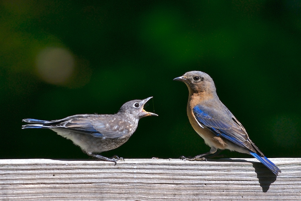 Eastern Bluebird young demanding food from parent